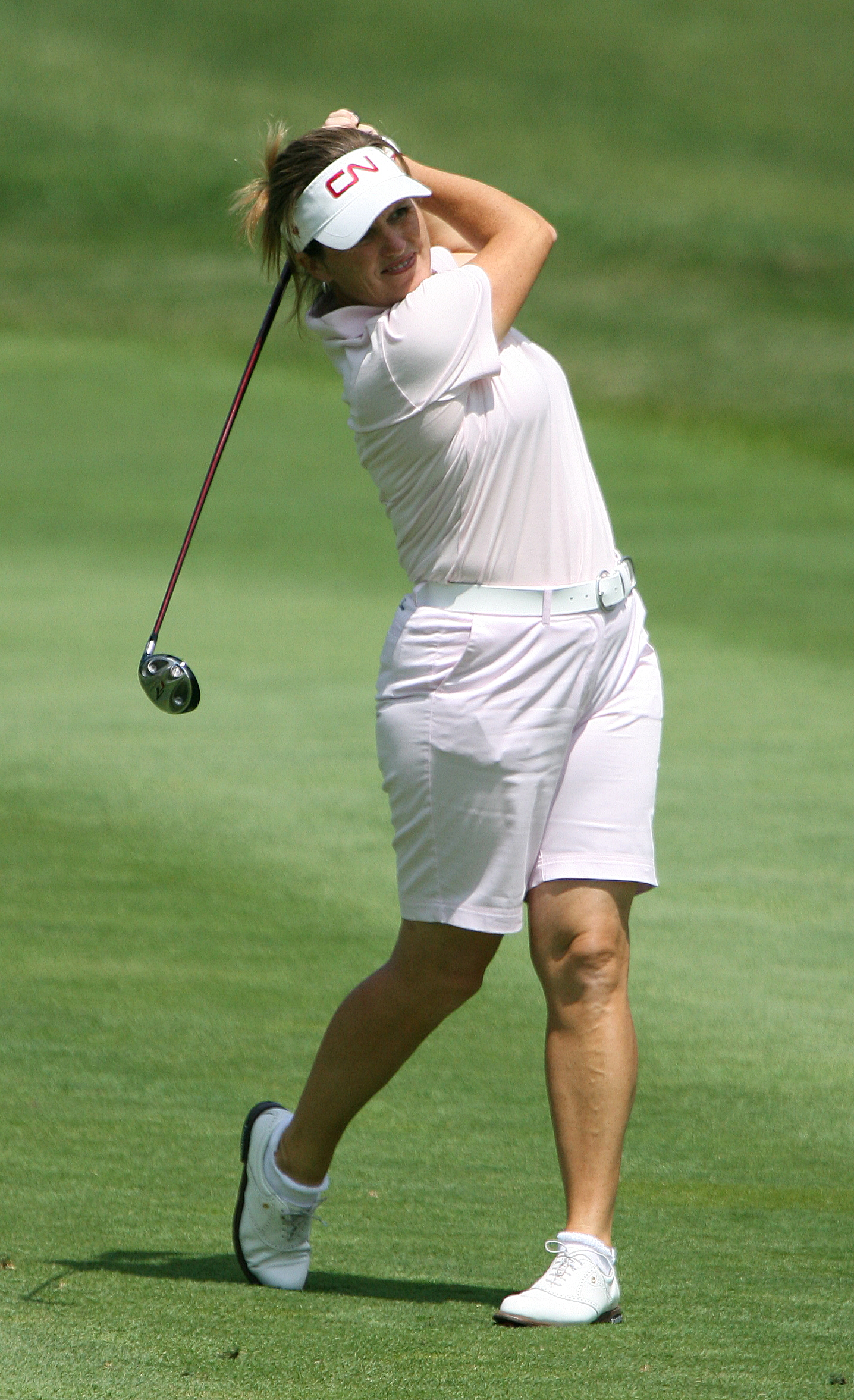 HAVRE DE GRACE, MD - JUNE 06: Lorie Kane (CAN) during practice before 2007 LPGA Championship held at Bulle Rock Golf Course, on June 6, 2007 in Havre de Grace, Maryland. (Photo by Keith Allison)